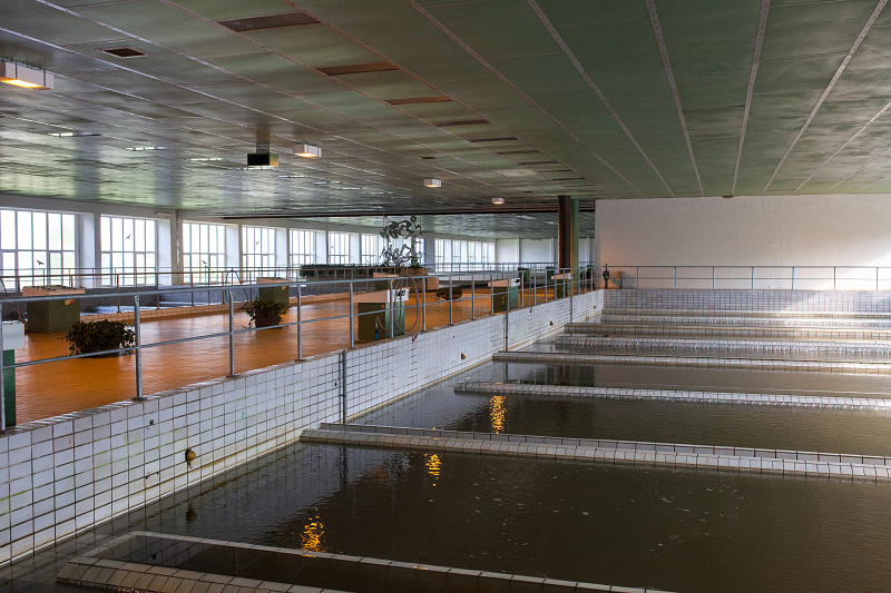 Úpravna vody Nová Ves u Frýdlantu nad Ostravicí - pískové filtry, autor: Boris Renner